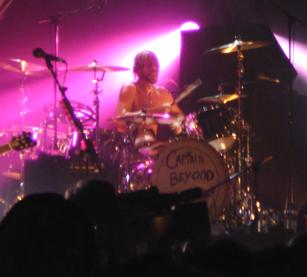 Foo Fighters-drummer Taylor Hawkins 2005